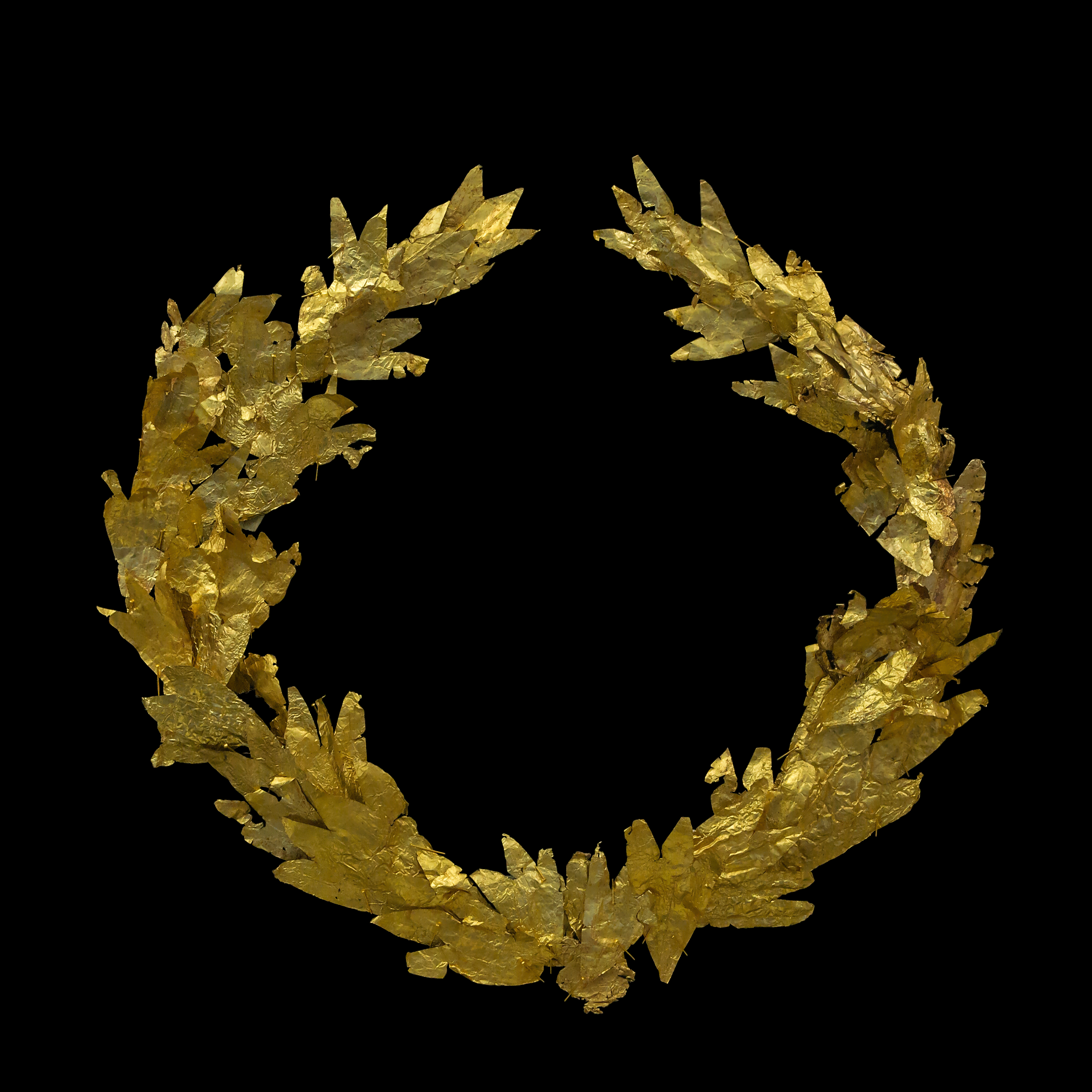 A golden laurel wreath, hellenistic era